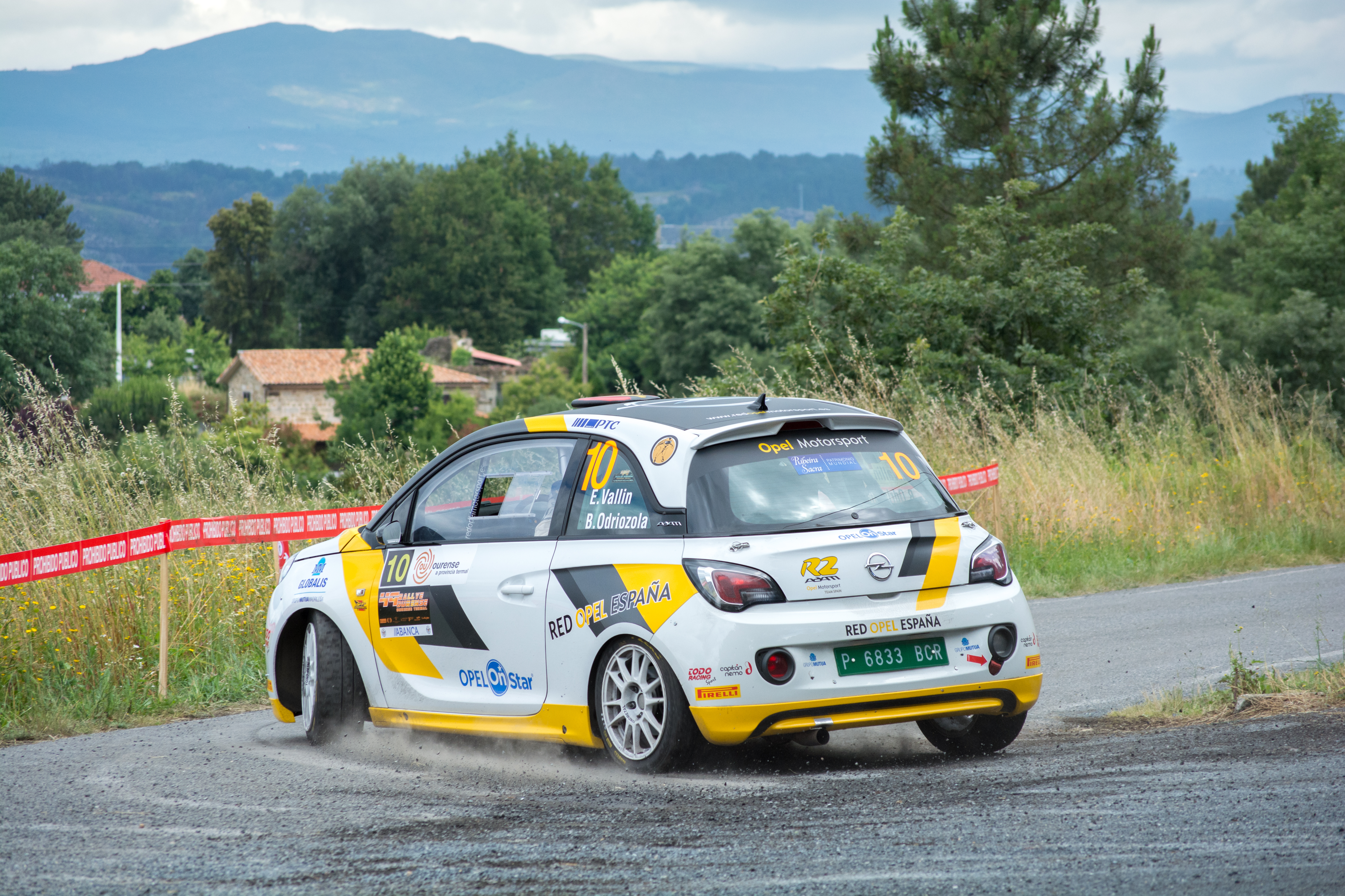 '49 TRally de Ourense ' in 2016, in the city of Ourense, scoring for the CERA.